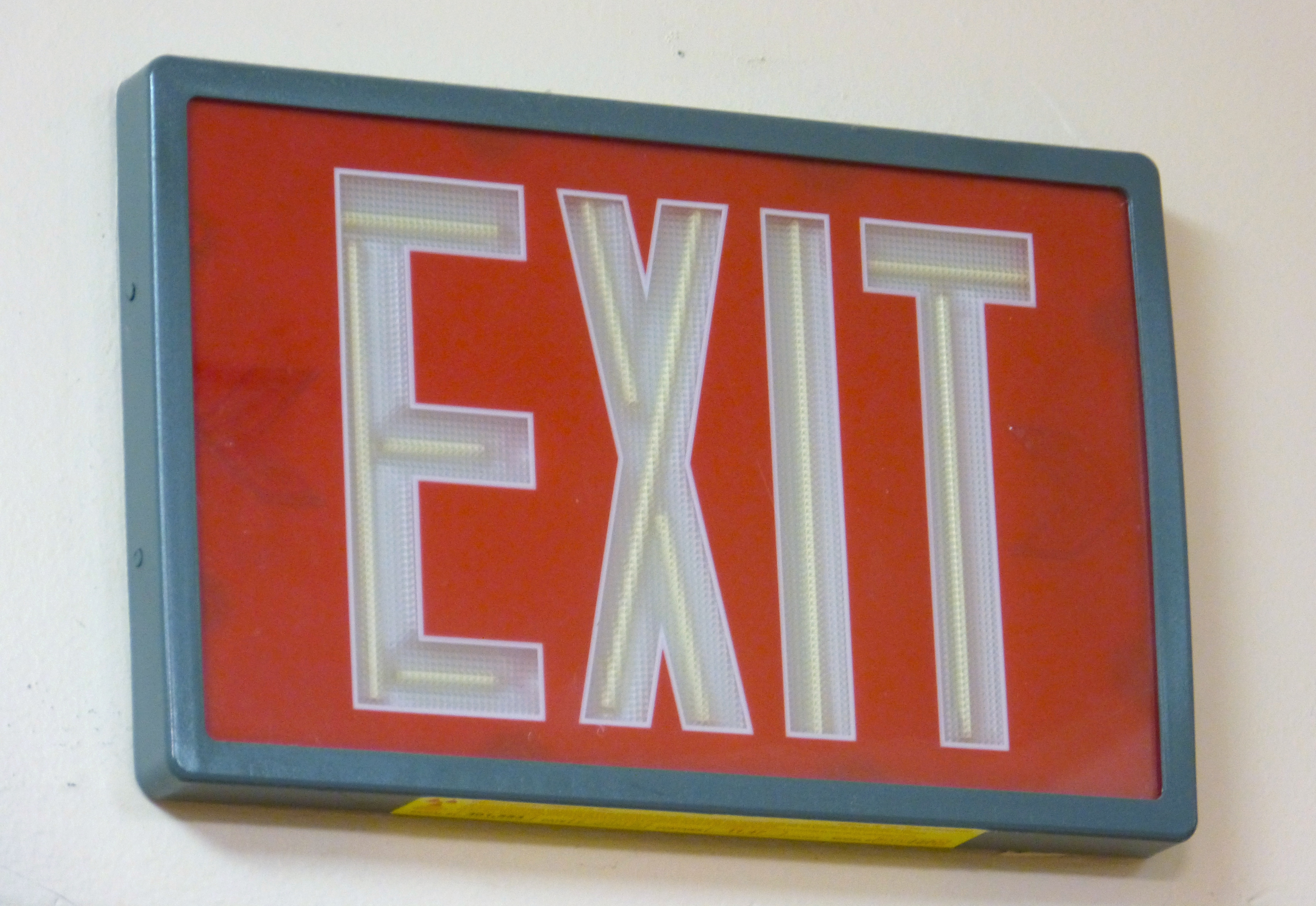 A self-luminous exit sign of the tritium type. The sign contains glass tubes with a phosphor lining that gives off light when bombarded by radioactive tritium (Hydrogen-3) inside the tubes.More information about tritium exit signs can be found in the Fact Sheet on Tritium (3H) EXIT Signs document from the Oregon Health Authority.